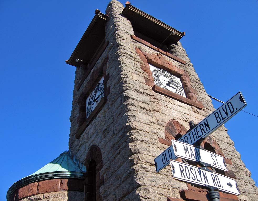 Stone clock tower at junction of Main Street and Old Northern Boulevard in Roslyn, NY, USA